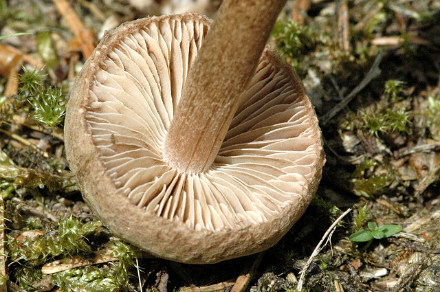 Inocybe lacera from Commanster, Belgium. If you think this is a different taxon, please contact James Lindsey.